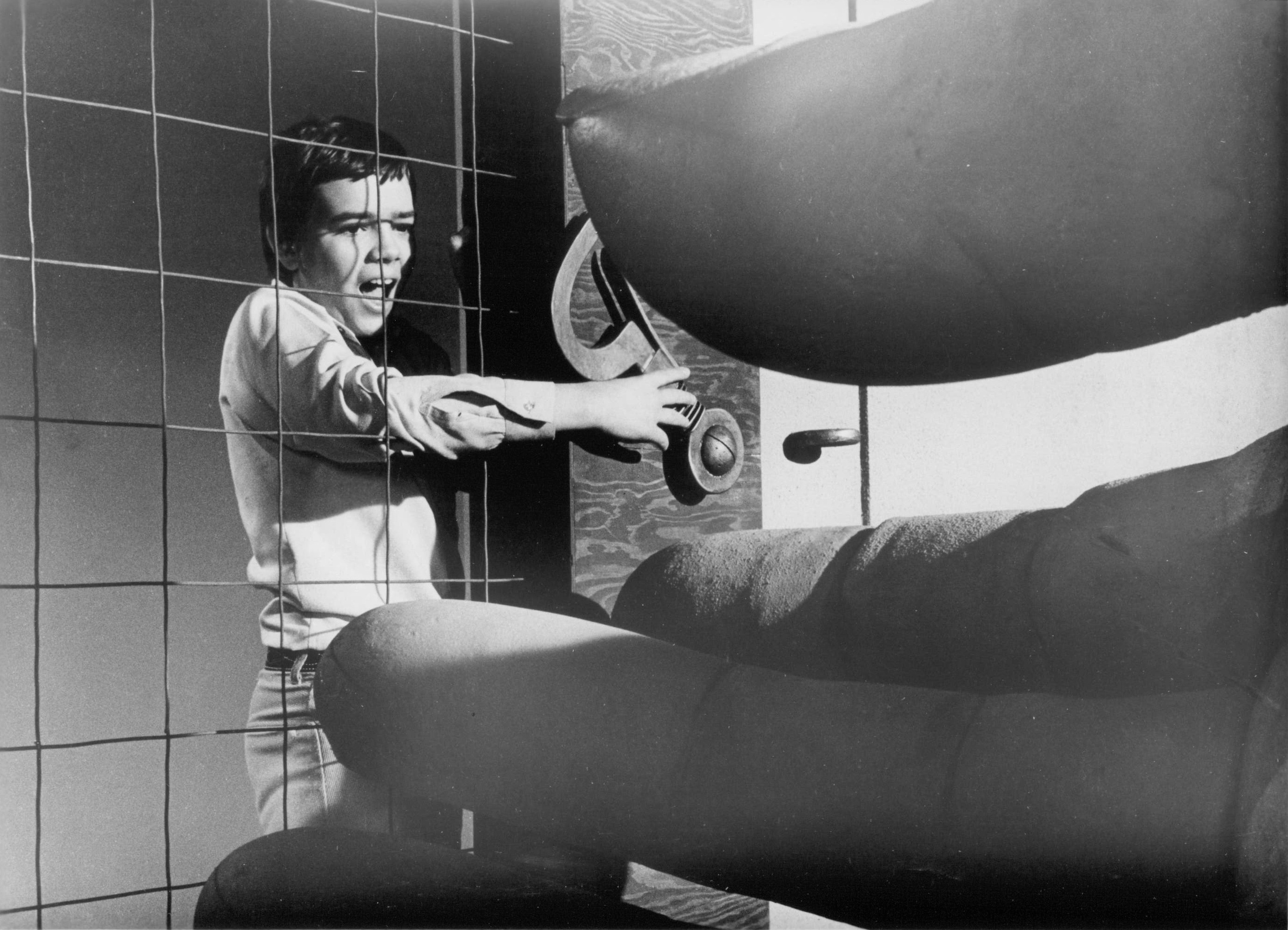 Publicity photo of child actor Stefan Arngrim promoting the second season of the television series Land of the Giants.